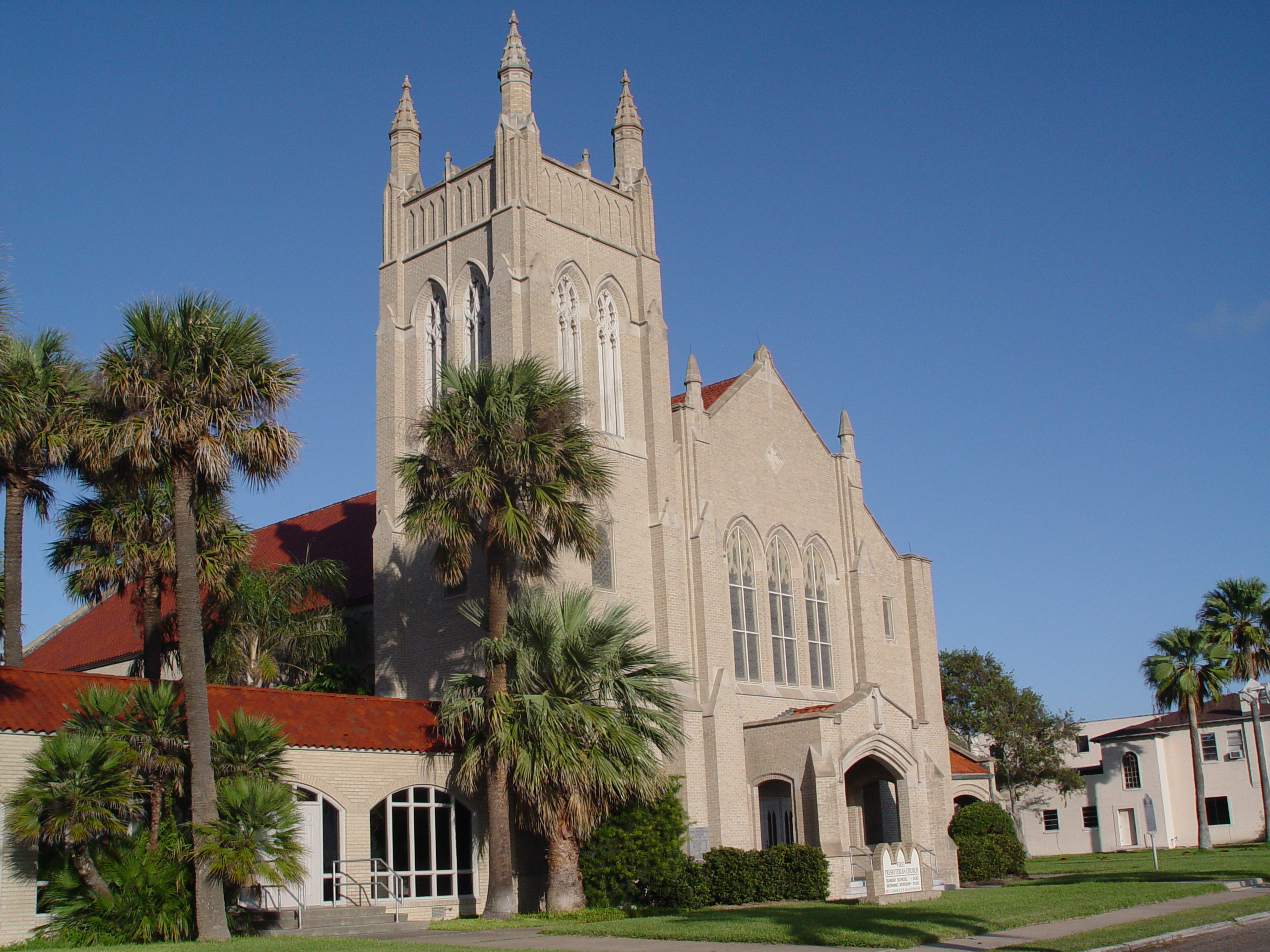 Front of First Presbyterian Church facing Corpus Christi Bay, located at 430 S. Carancahua. Constructed in 1929.